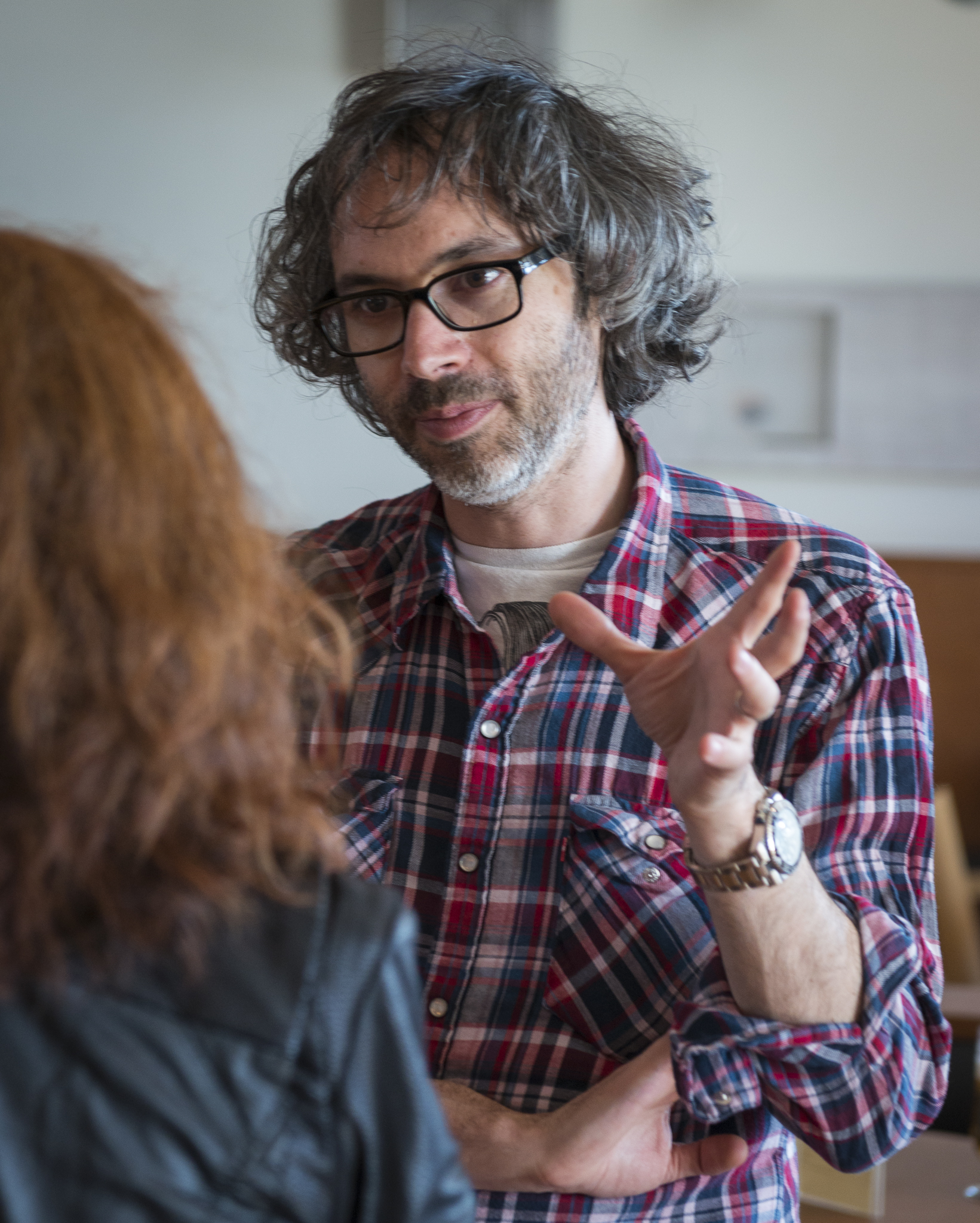 James Rhodes at Literaktum festival, in San Sebastián.